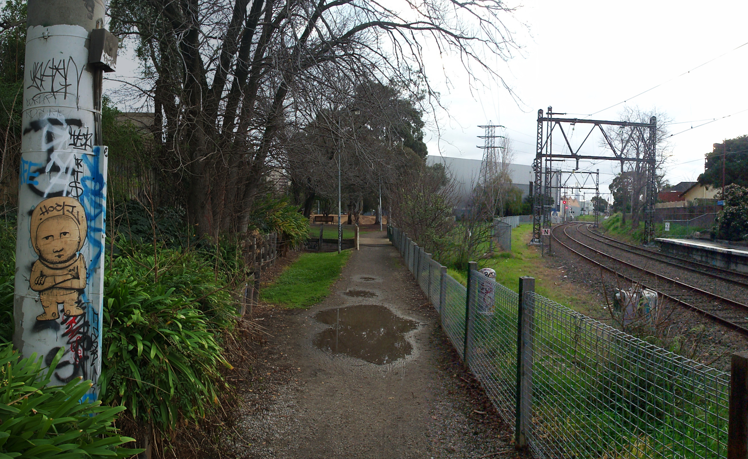 Windsor Siding reserve, adjacent Windsor railway station, Melbourne.